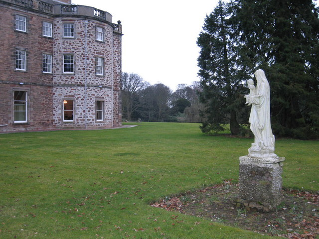 Leuchie house and gardens. Mansion house built 1779-85, originally had formally landscaped gardens. This ancestral home of the Hamilton-Dalrymple family is now a holiday centre for people with MS.